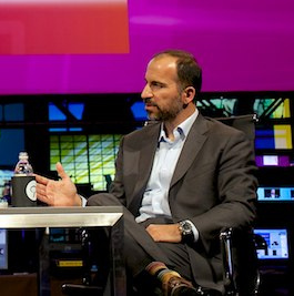 Dara Khosrowshahi & Lorraine Sileo